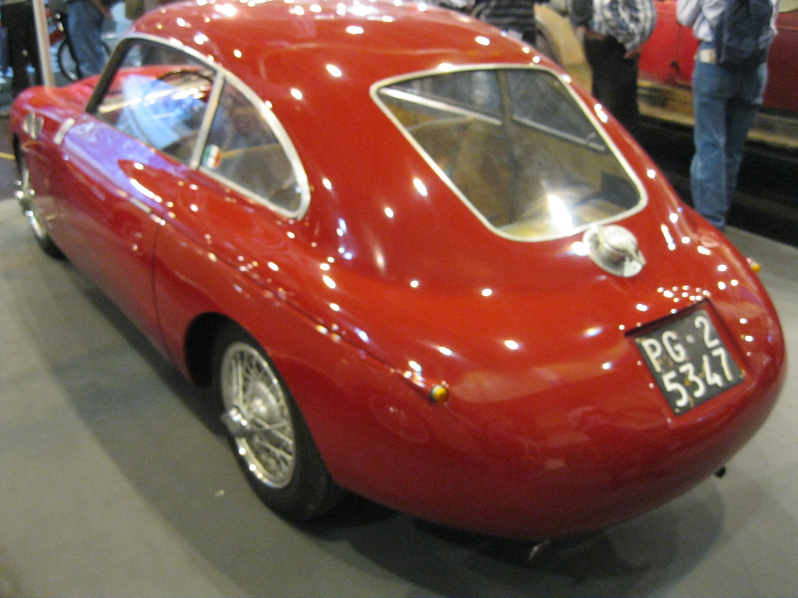 Rare Zagato coupe, spotted at Techno Classica Essen in 2012.